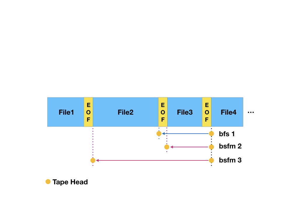 mt command - Backword